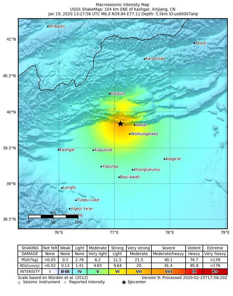 2020 Kashgar Earthquake - ShakeMap